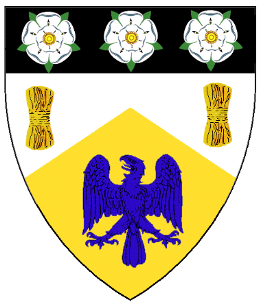 East Riding of Yorkshire coat of arms.